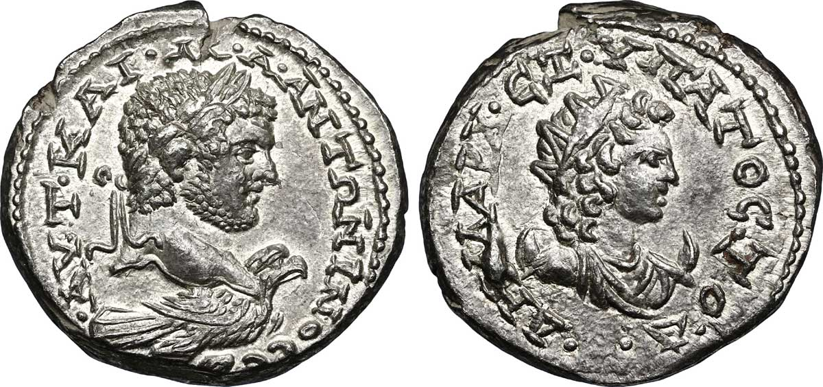 Monnaie frappée en la cité d'Arados